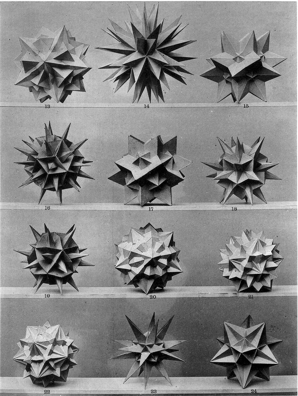 Many polyhedra models created by Max Brückner.